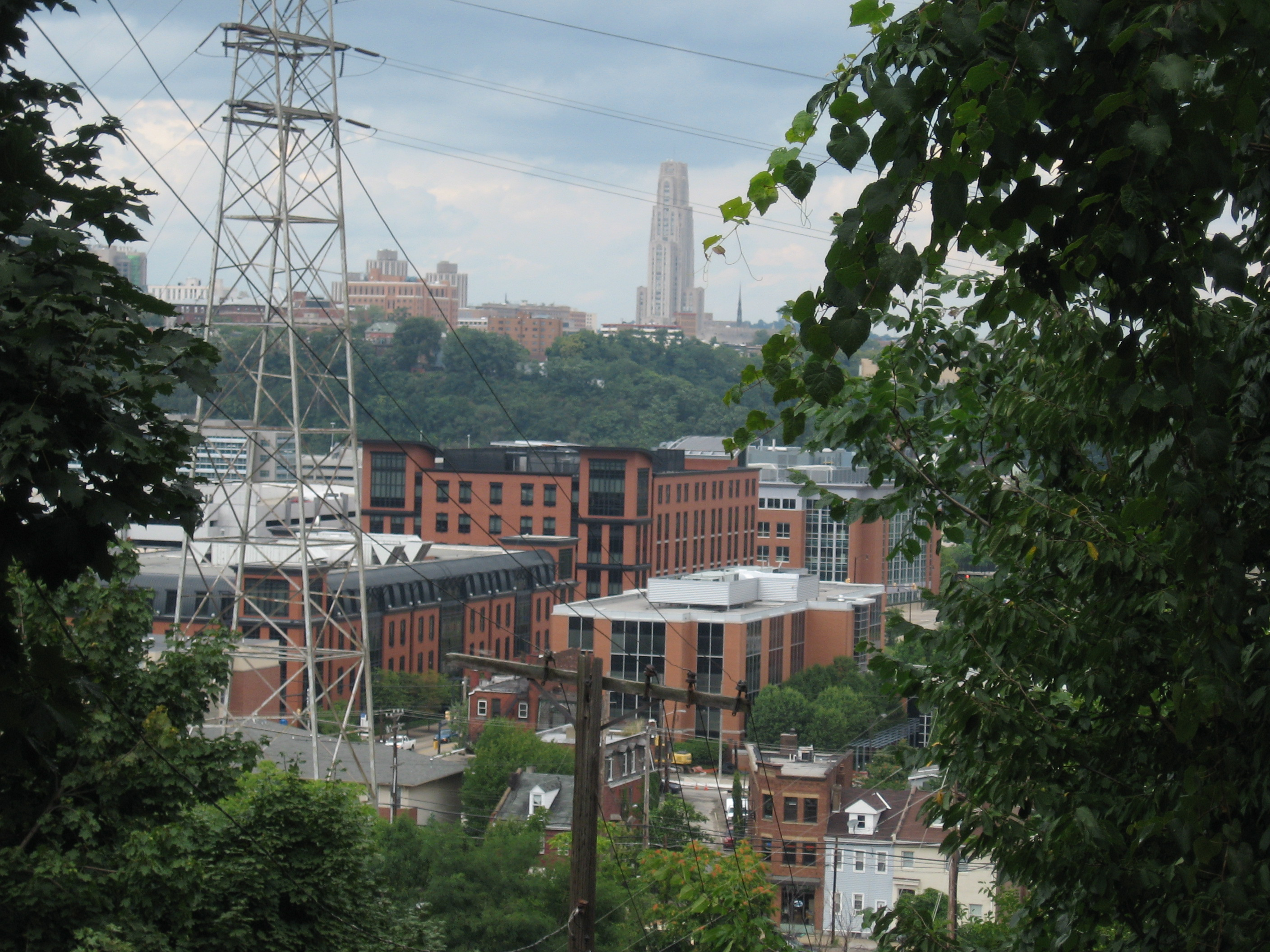 View of the South Side in Pittsburgh from the top of some steps. The Cathedral of Learning and Southside Works are visible